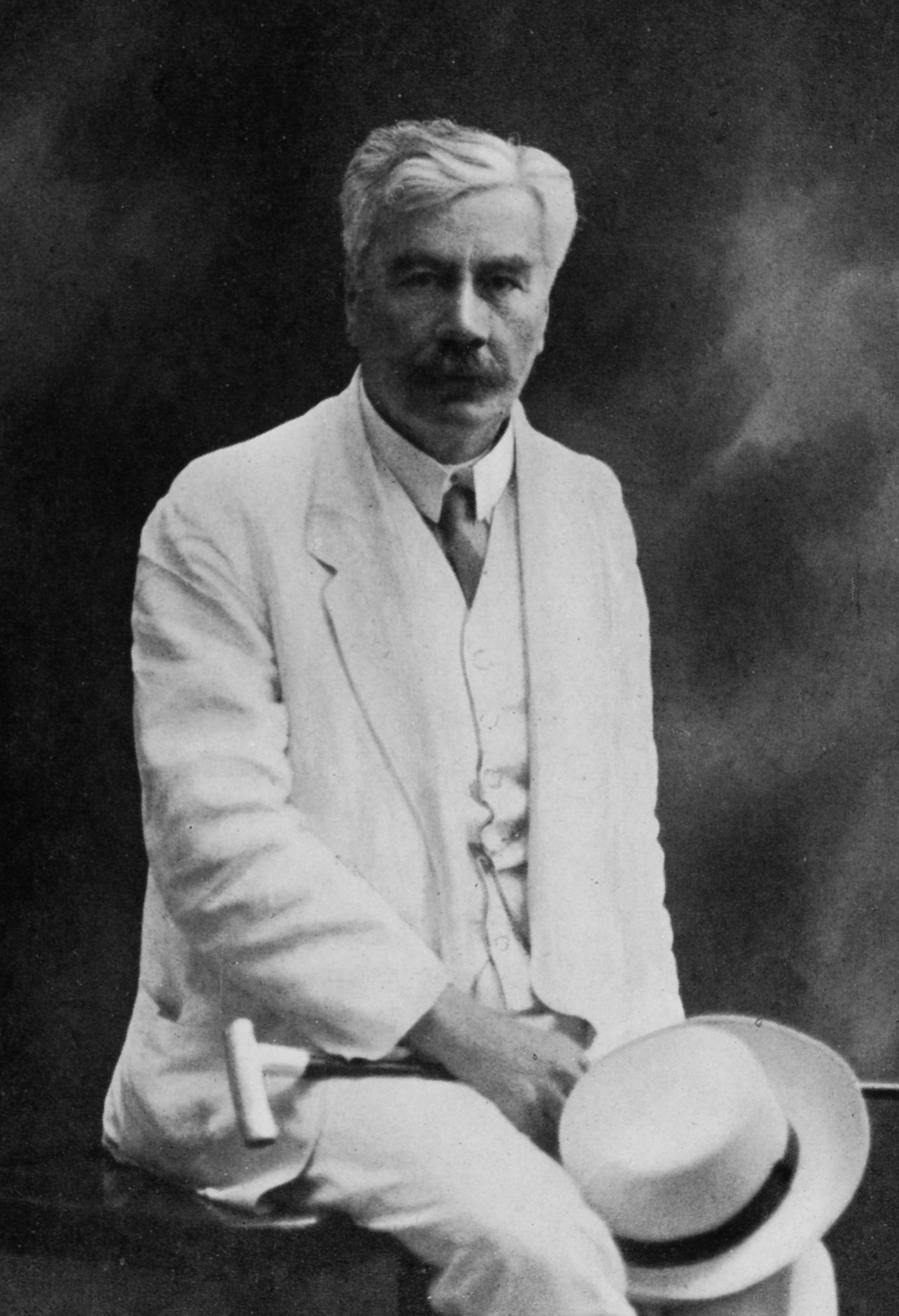 Sir Marc Amand Ruffer